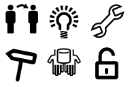 Open Database License (ODbL) summary icons from OKFN. You are free: To Share, To Create, To Adapt; As long as you: Attribute, Share-Alike, Keep open. Disclaimer from [1]: This is not a license. It is simply a handy reference for understanding the ODbL 1.0 — it is a human-readable expression of some of its key terms. This document has no legal value, and its contents do not appear in the actual license. Read the full ODbL 1.0 license text for the exact terms that apply.